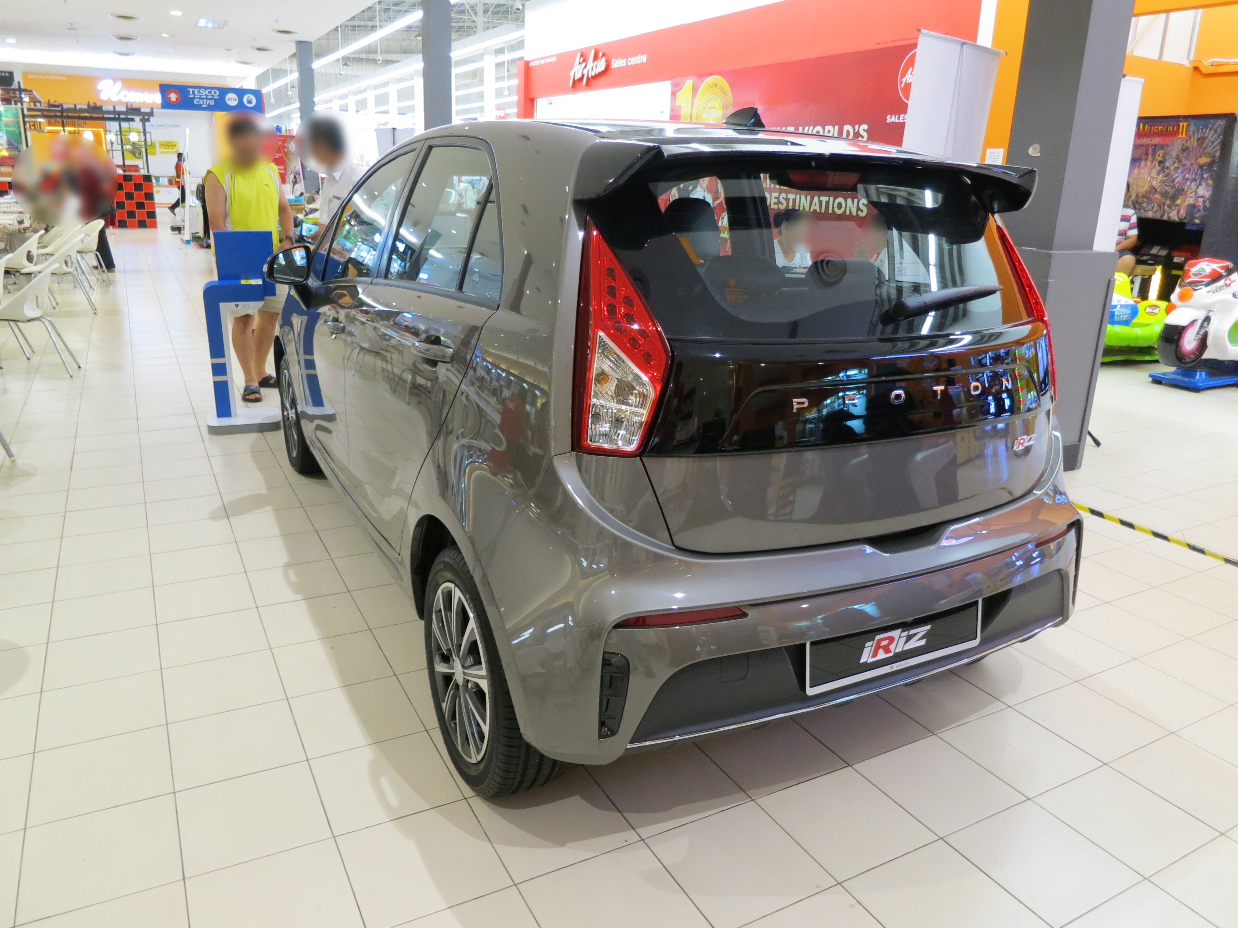 A 2019 Proton Iriz 1.6 Premium CVT photographed at Tesco Extra Sungai Dua, Penang, Malaysia on the 3rd of May 2019.